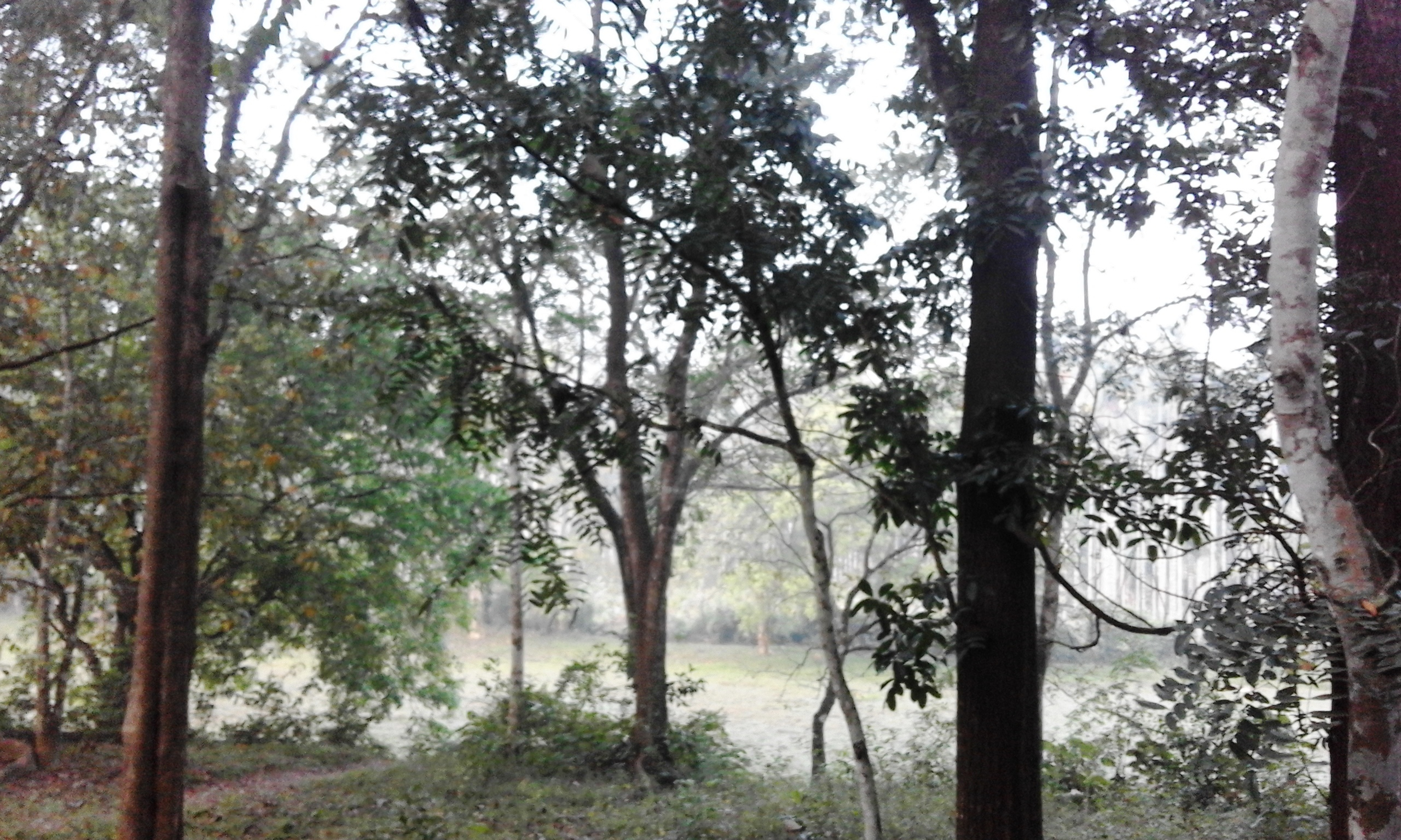 Tuvvur, Perinthalmanna, Kerala, India.